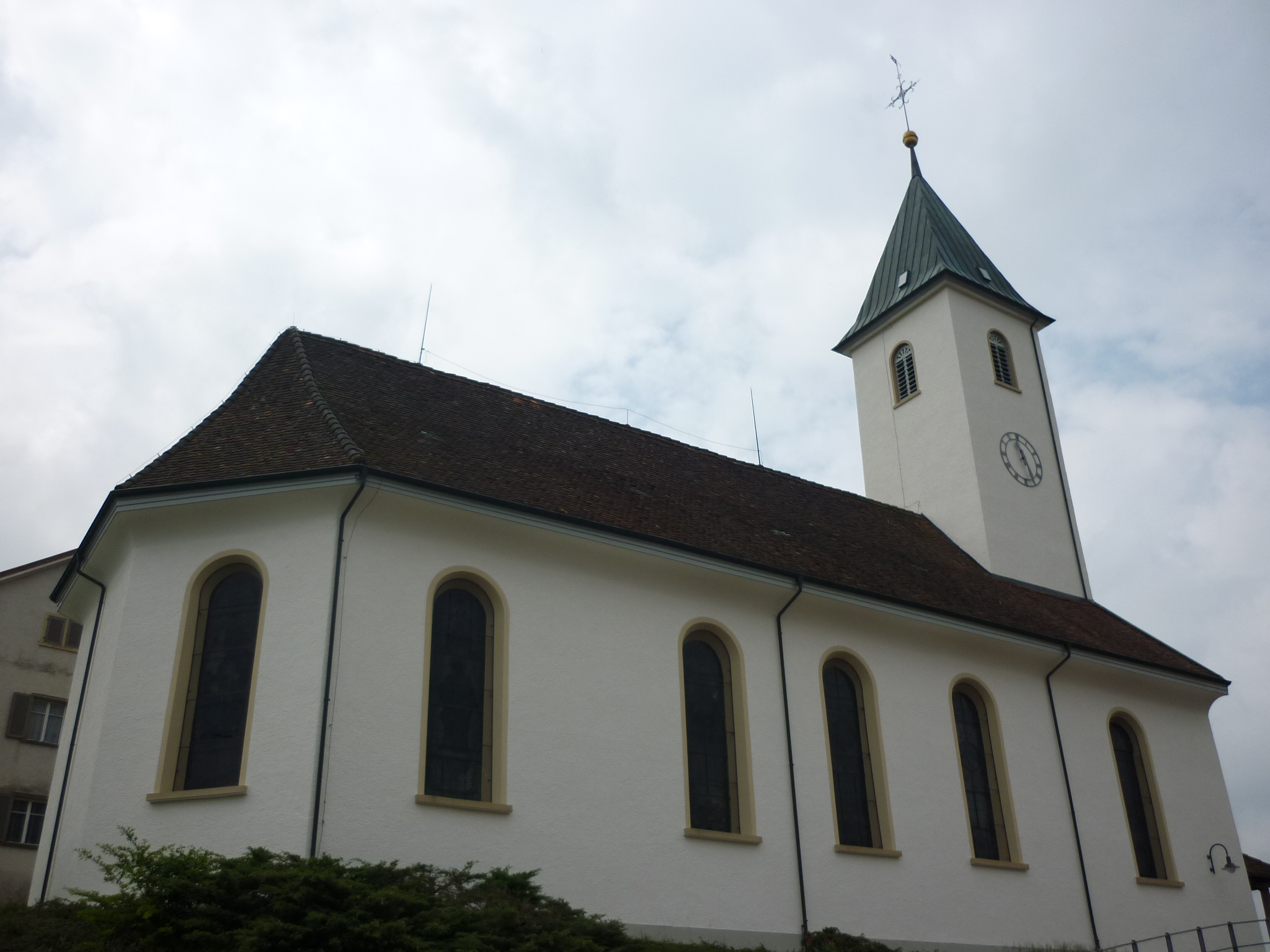 Church Schupfart AG, Switzerland